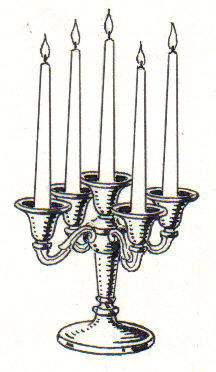 line art drawing of candelabrum.